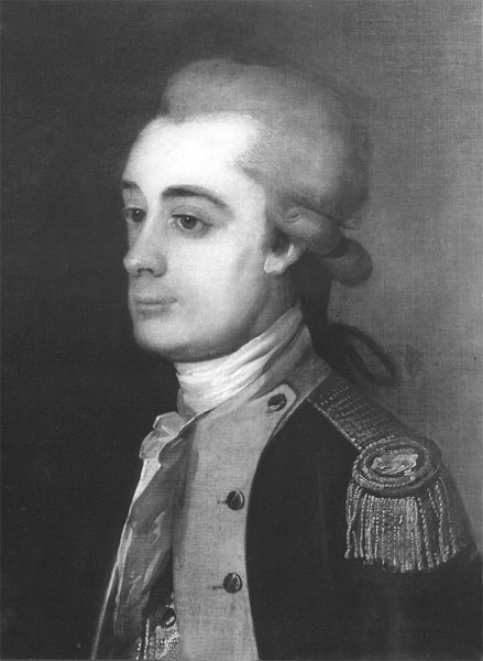 Samuel Bentham 1784 439 x 600 pixels images/sam.gif